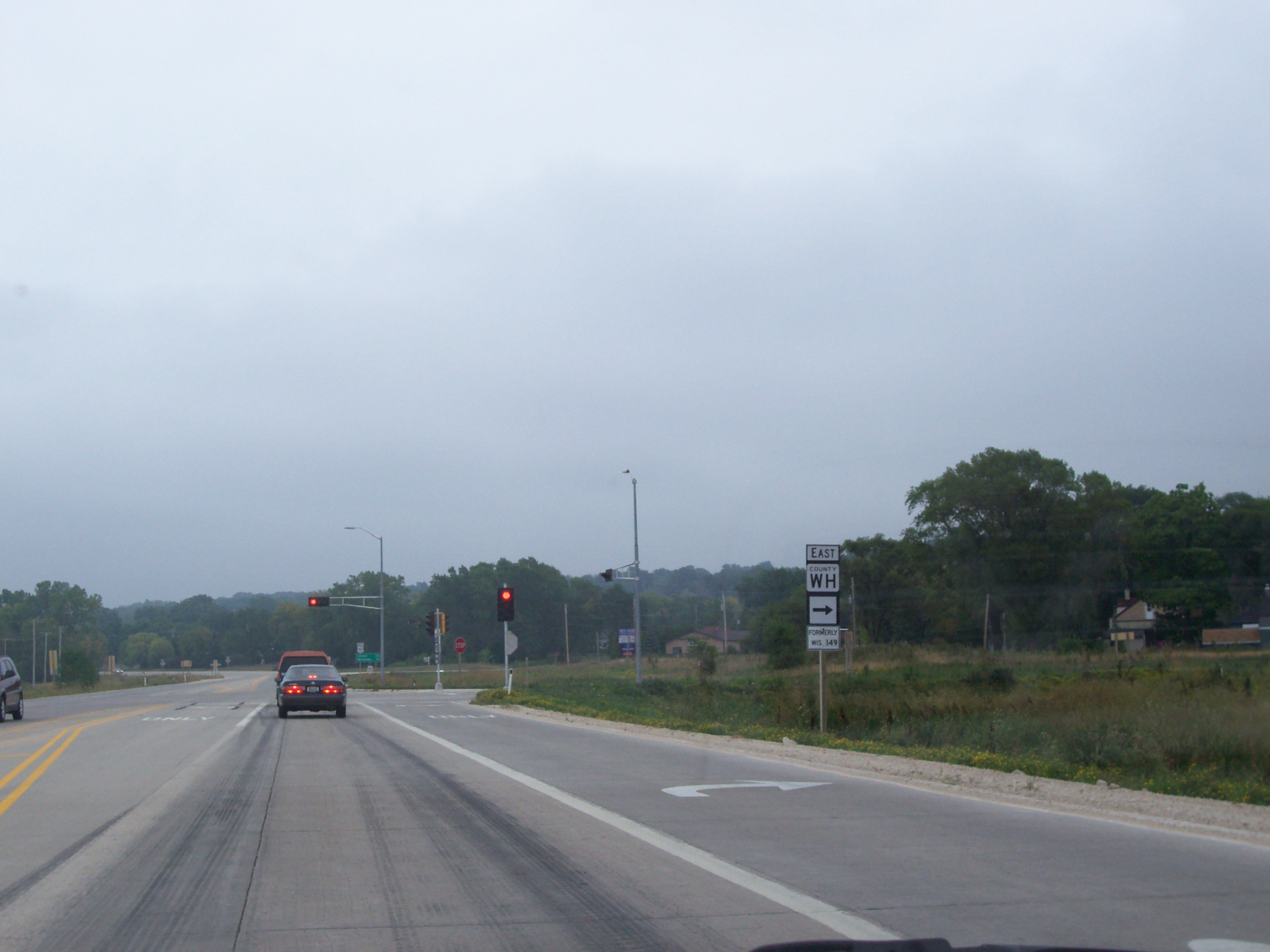 A picture of the former Highway 149 Wisconsin western terminus at U.S. Route 151 in Fond du Lac, Wisconsin. This image was taken August 24, 2006 by User:Royalbroil Category:Images of Wisconsin highways